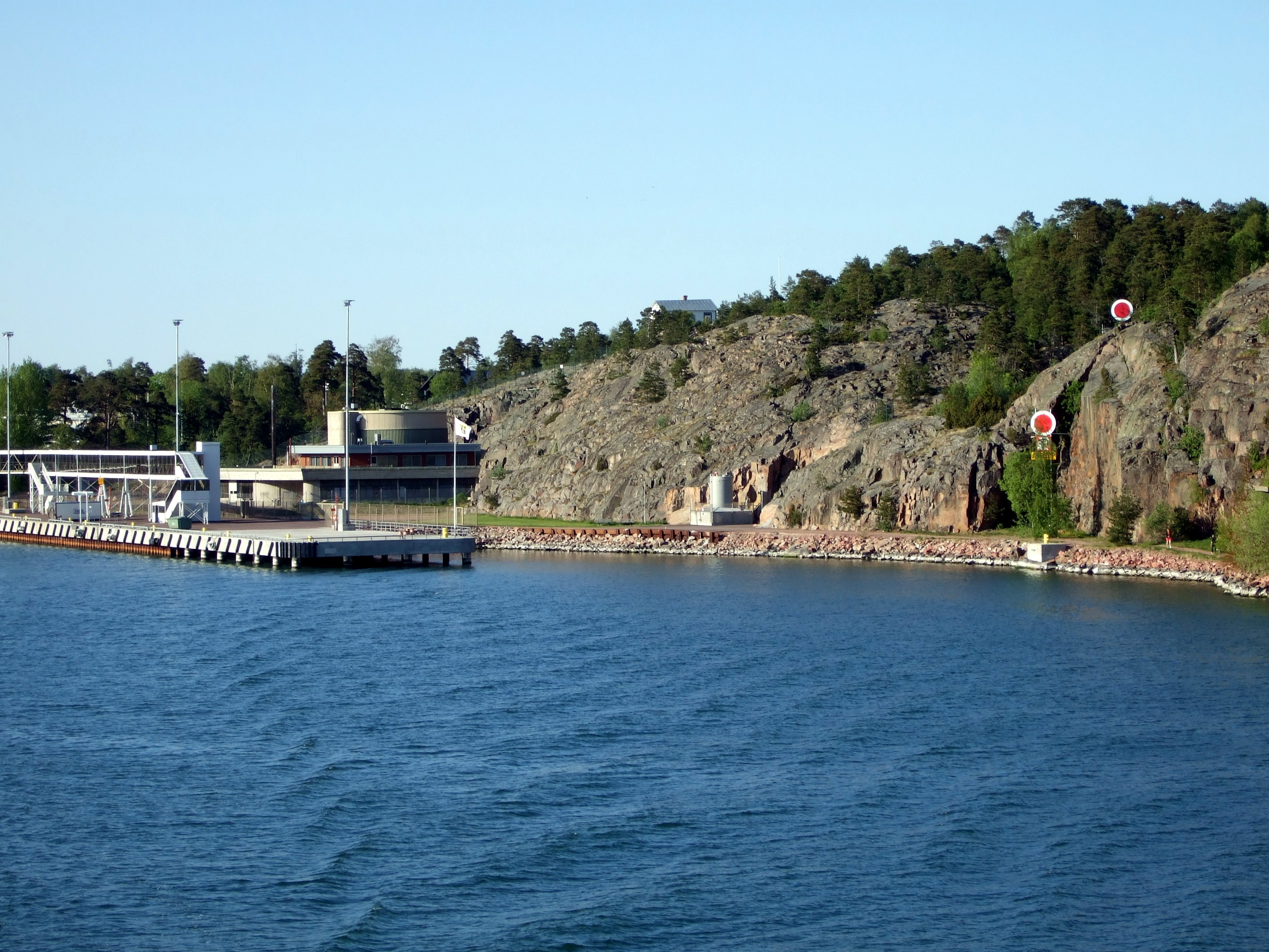 Lotsberget, Mariehamn, Åland